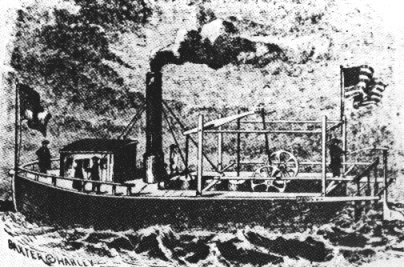 Fitch's successful steamboat (1790)